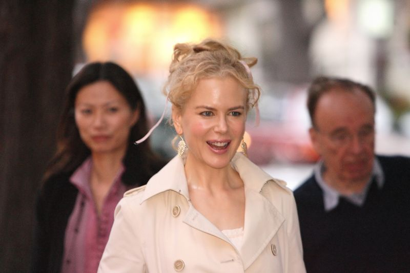 Nicole Kidman with Wendi Deng, Rupert Murdoch's wife and Ruperdoch in the background